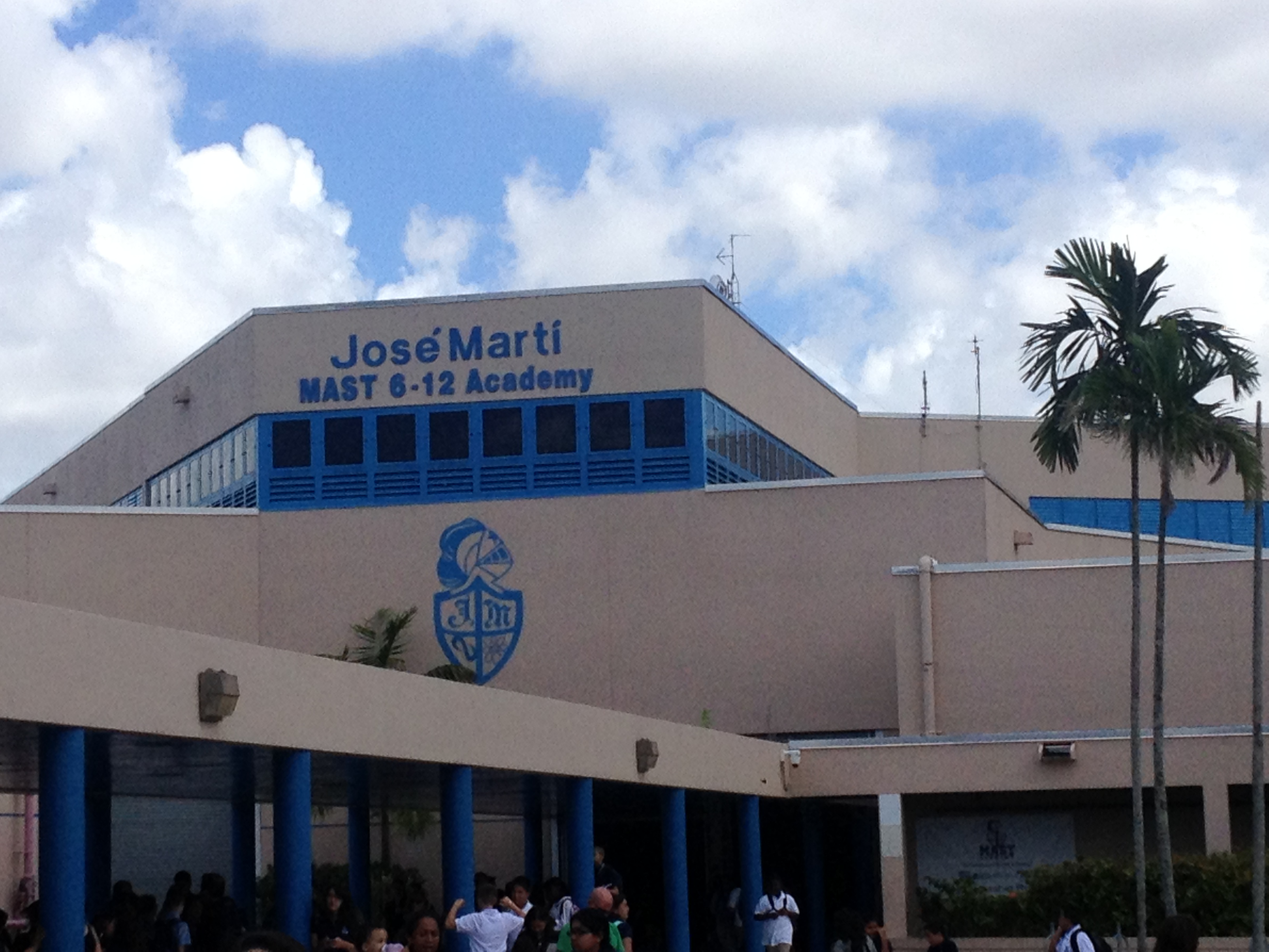 The entrance to JMMAST 6-12.